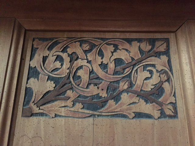 Wood carvings on the back of one individual seat, choir stalls of Biertan fortified church, 16th century